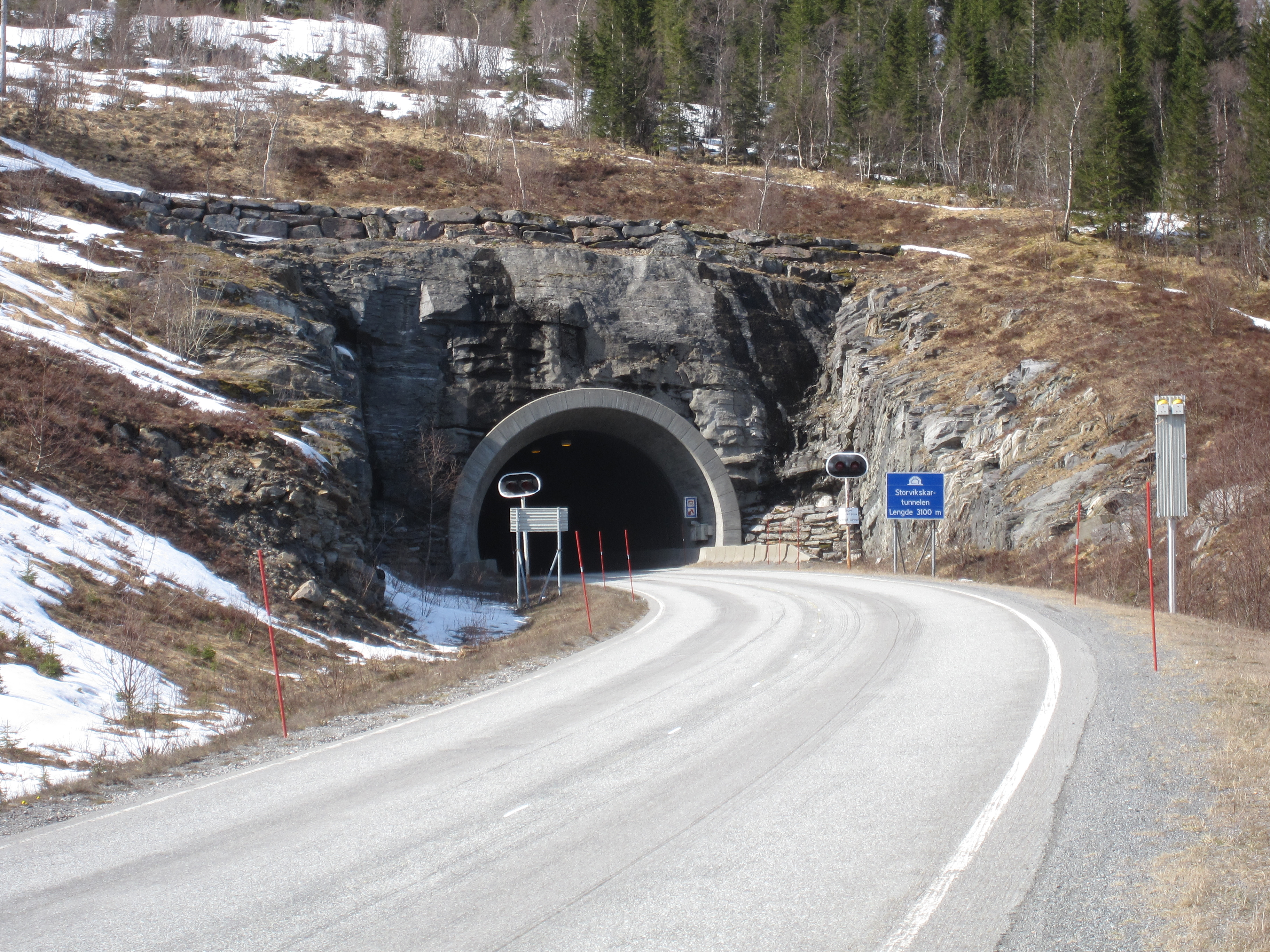 Picture of entrance of Storvikskaret tunnel at Oterstranda.